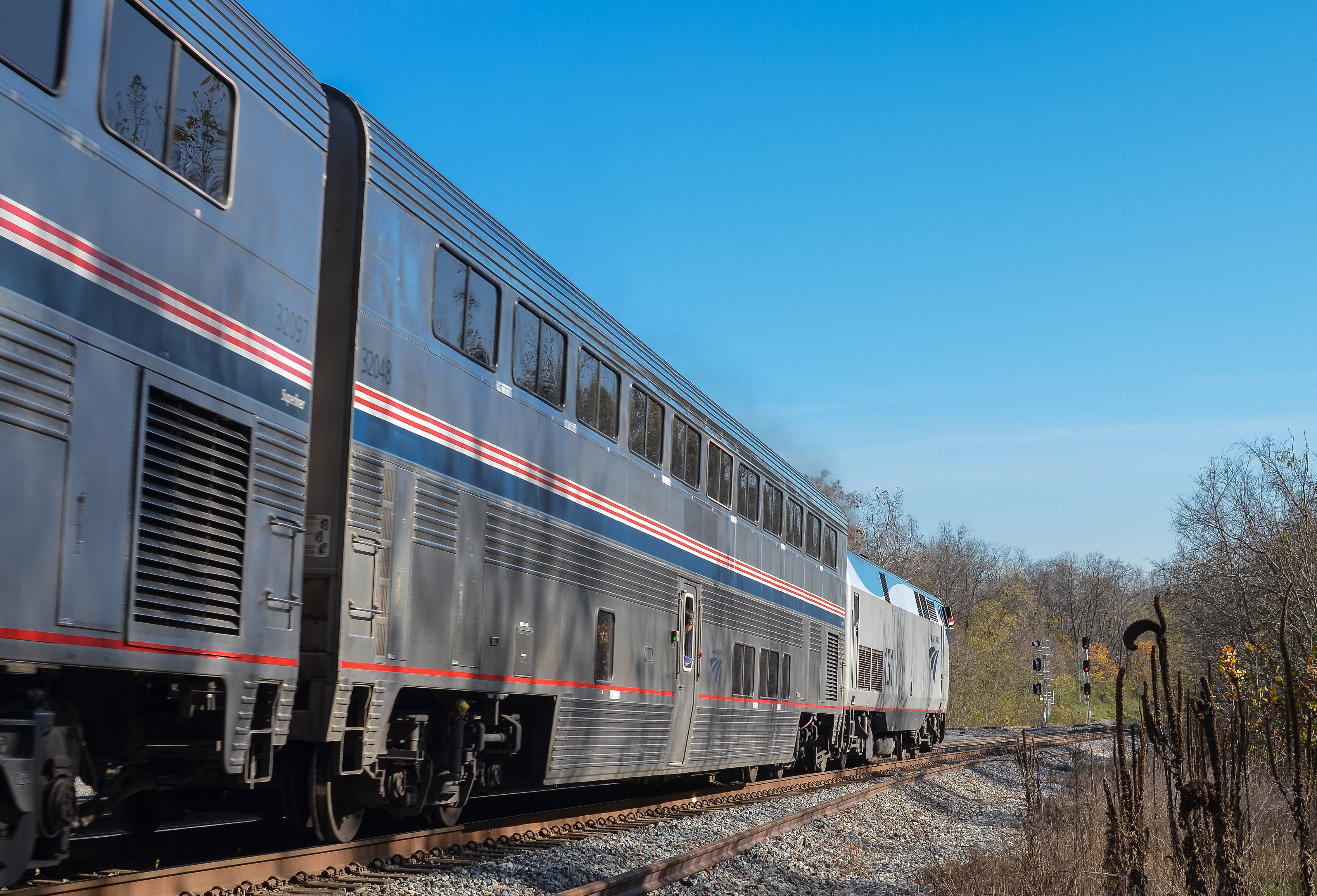 The Capitol Limited's Superliner sleepers right behind the locomotive. This is an example of the shortened Capitol Limiteds Amtrak operated in the fall of 2014.